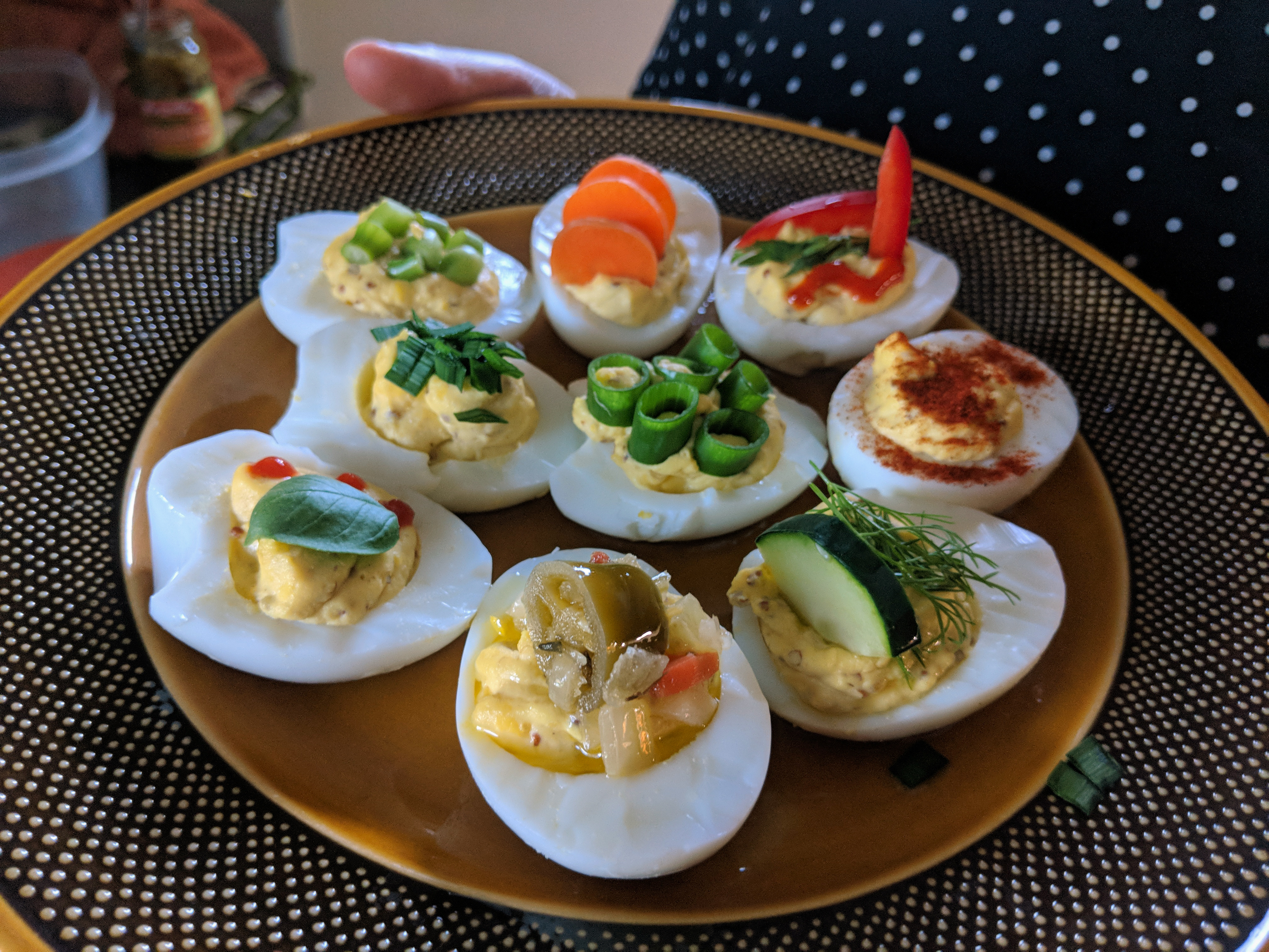 Assortment of Homemade Contemporary Deviled Eggs